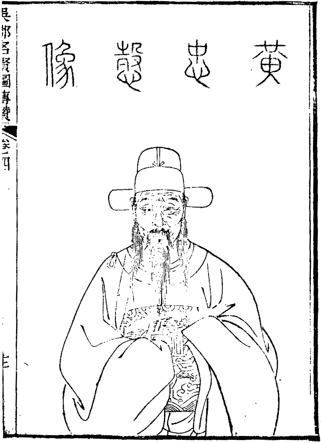 Huang Zicheng, politician of the Ming Dynasty.